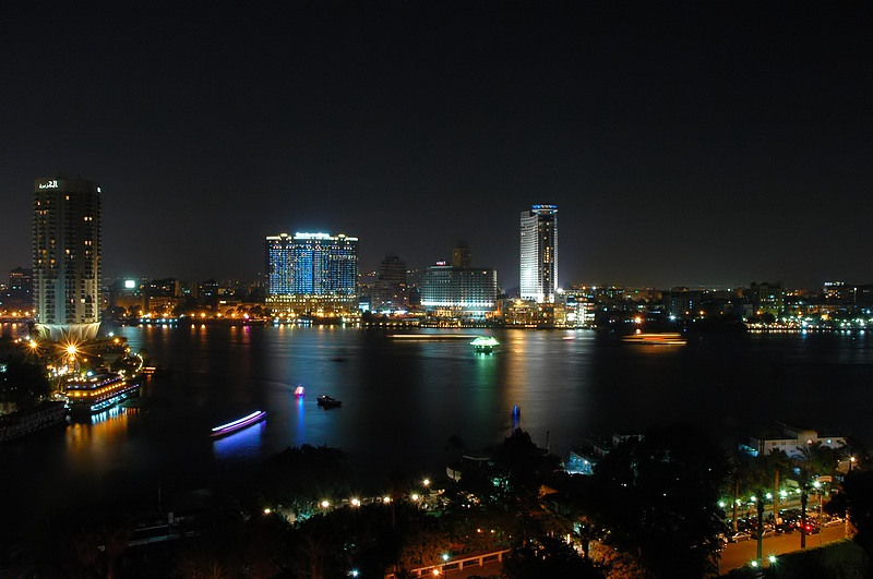 View of central Cairo across the Nile. In the picture there are various hotels. The circular one to the far left is the Cairo Sofitel. Next to that on the other side of the River Nile is the Helnan Sheperd (with blue lights). The hotel to the far right is the Grand Hyatt Cairo.